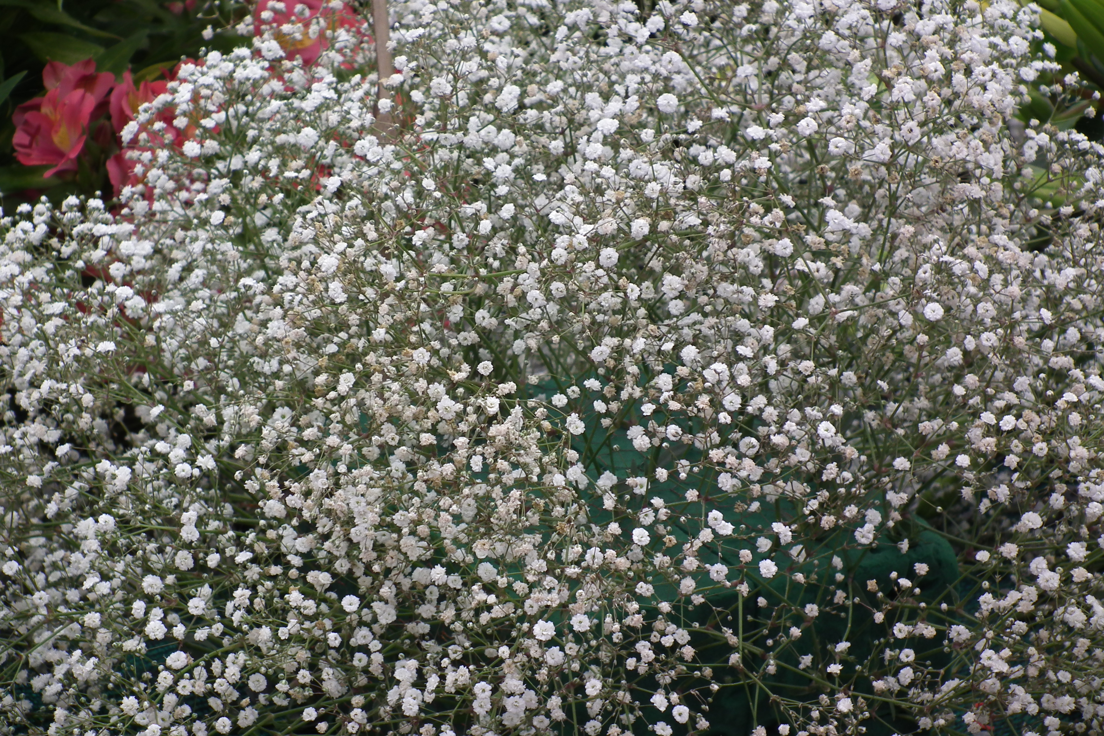 Gypsophila elegans from Lalbagh Garden, Bangalore, INDIA during the Annual flower show in August 2011.